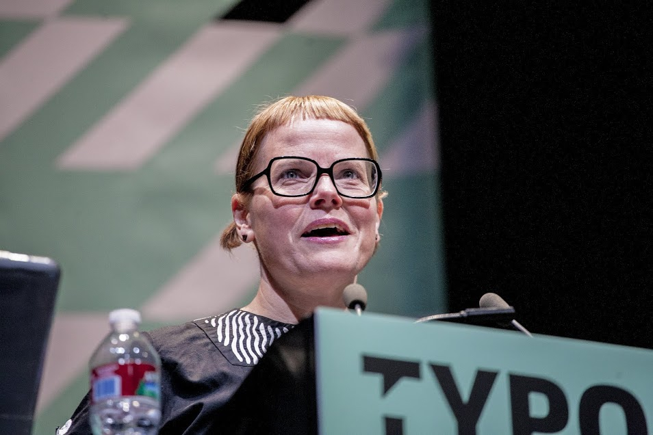 Fine artist Lisa Congdon at Typo San Francisco 2014, photo by Amber Gregory